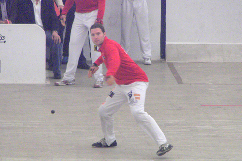 Salva, during the final match of the 2009/10 Circuit Bancaixa